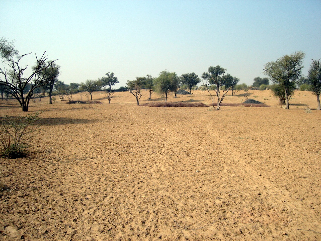 View of Thar Desert at village Thathawata in Churu district in Rajasthan State of India